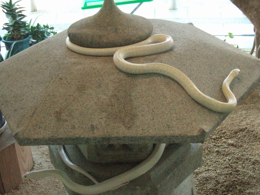 "Shiro-hebi"(albino of E.climacophora) at Iwakuni, Japan(岩国のシロヘビ)2 of 2